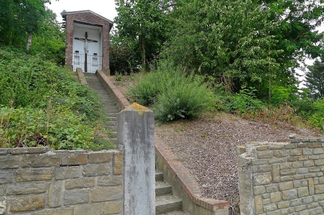 Chapelle du calvaire - les waleffes